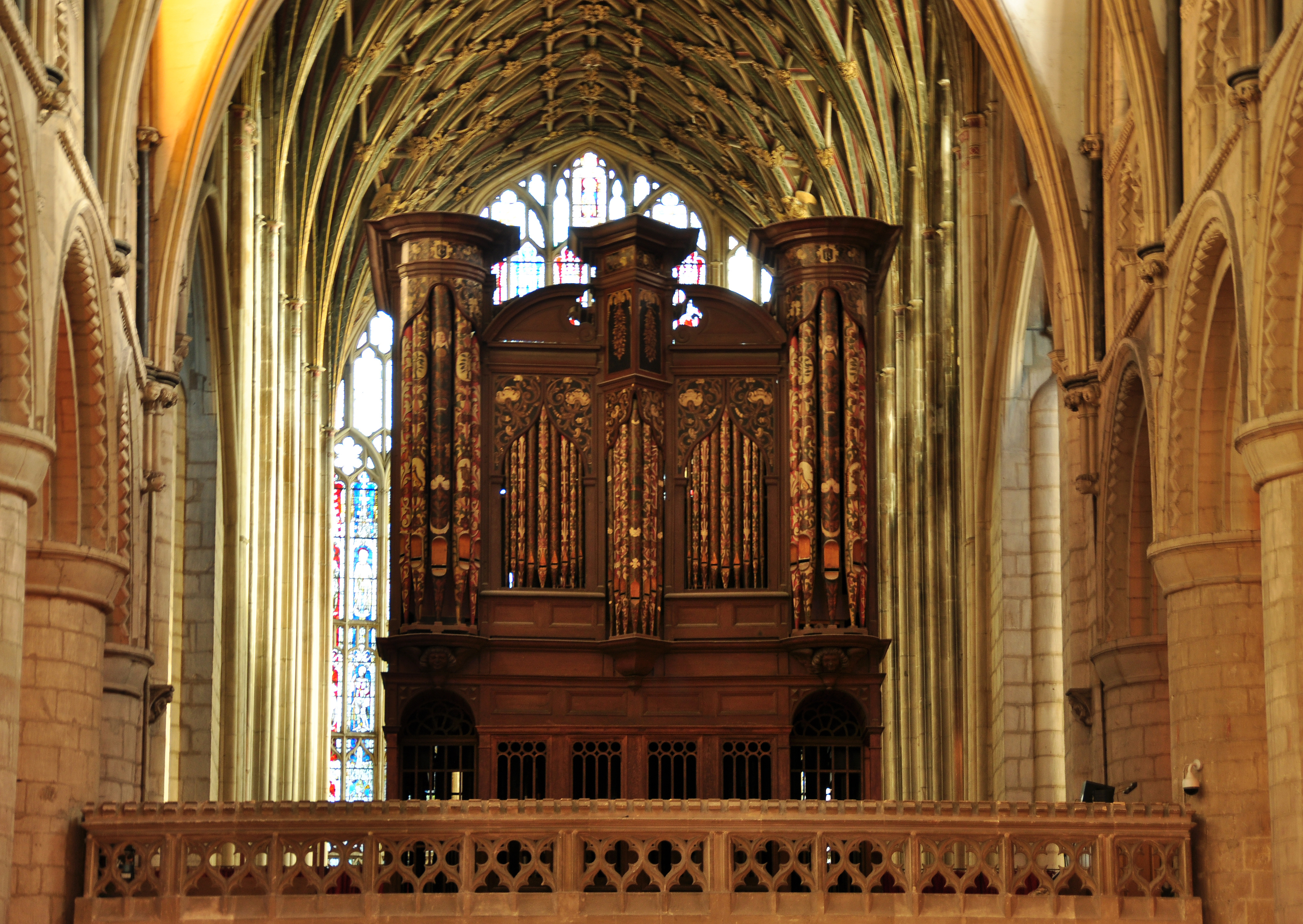 The organ in Gloucester Cathedral